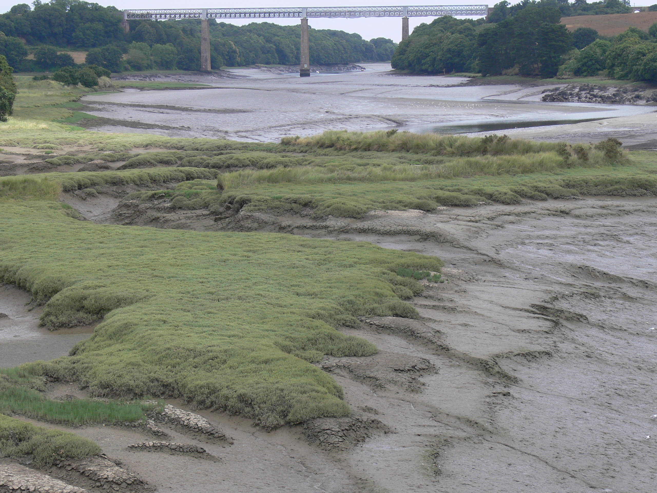 Mudflats of the french coastal river The River Penzé (Summer 2010), upstream from the estuary of the river Penzé In the Baie de Morlaix (fr) (filed ZNIEFF, rich in birds with sometimes Alca torda, not far from the mudflats of Locquénolé (Important for birds) and from the River of Morlaix who form the other great natural infrastructure of the French Blue Frame in this area. For" Water management", this river is Concerned by SAGE (Schéma d'aménagement et de gestion des eaux) "Leon Trégor".